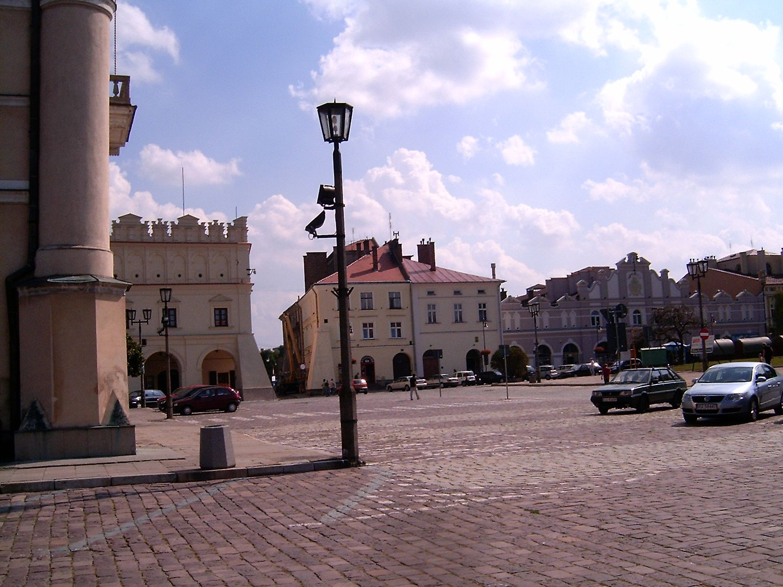 Jarosław, market, Overview sight